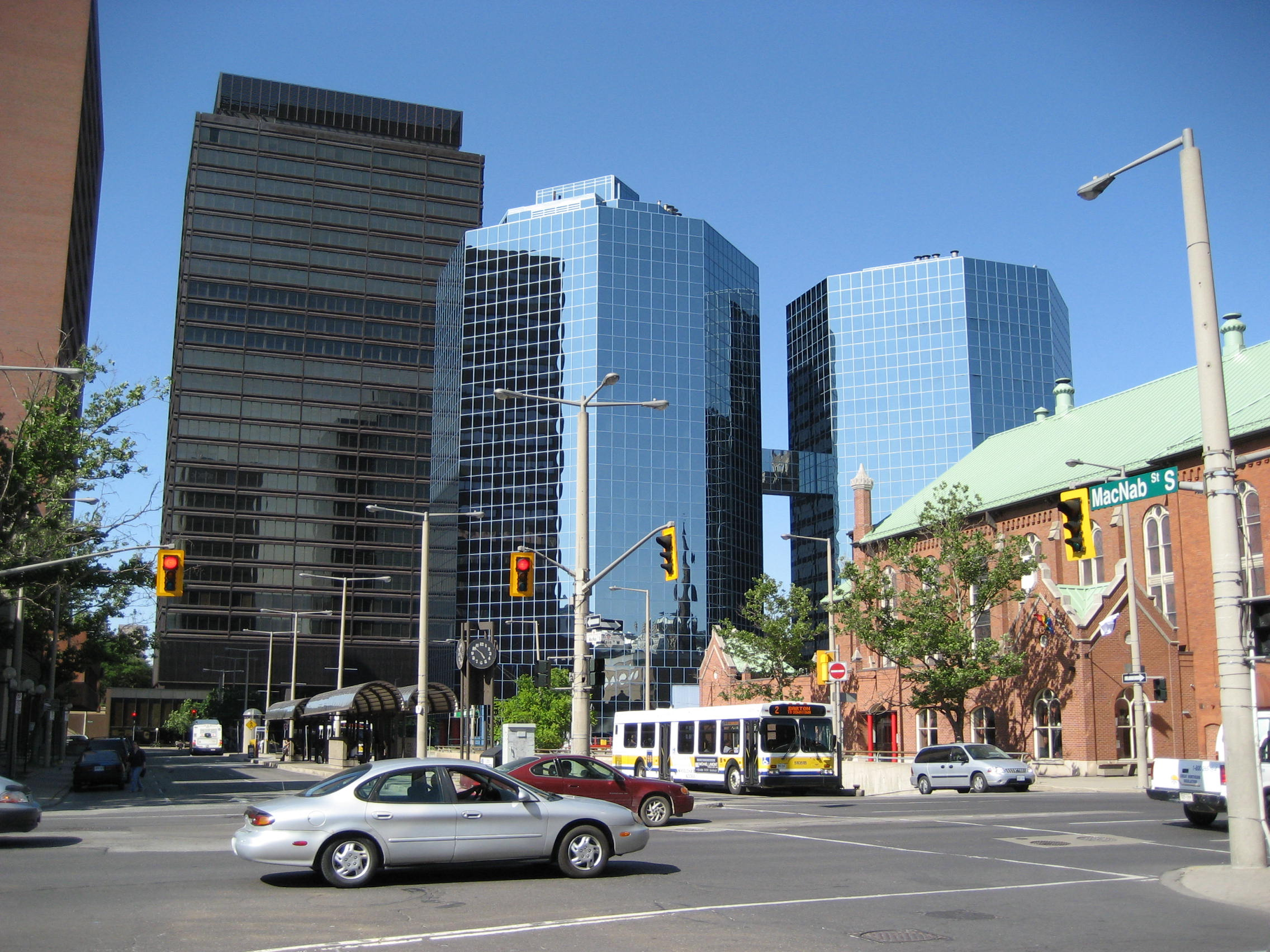 Commerce Place Complex, view from MacNab Street South & Main Street West, downtown Hamilton